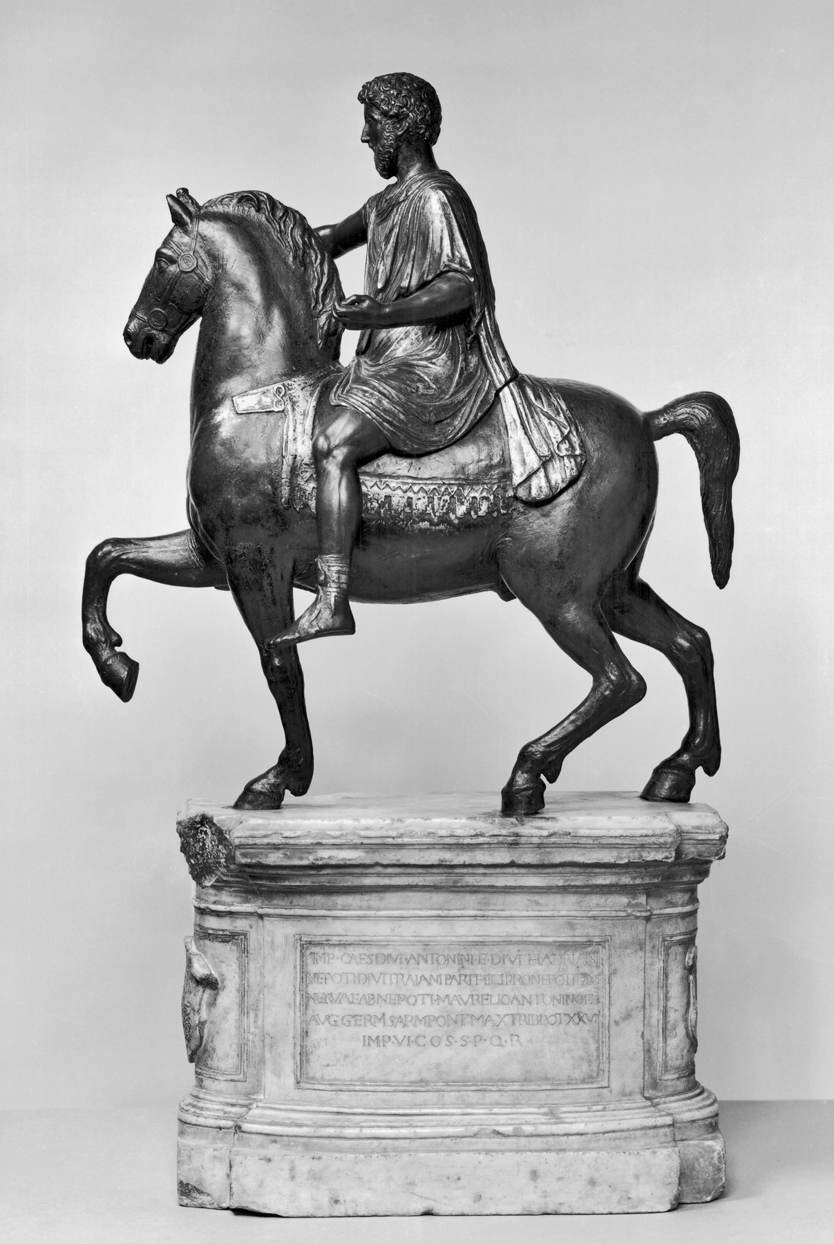 This is a reduction of the monumental statue on the Capitoline Hill, Rome, dedicated in AD 176- the only equestrian statue from antiquity to have survived. It escaped being melted down for cannon because it was thought to represent Constantine, the first Christian emperor. In the early 1500s, the rider was correctly re-identified as the Roman emperor Marcus Aurelius (reigned 161-180), particularly respected by humanists for his philosophical writings on ethics. Although the first reduction of this important public statue was made in 1465 (for the study of the Florentine patron and collector Piero de' Medici), this one can be dated to after 1564, when the marble base reproduced here (designed by Michelangelo) was put in place.